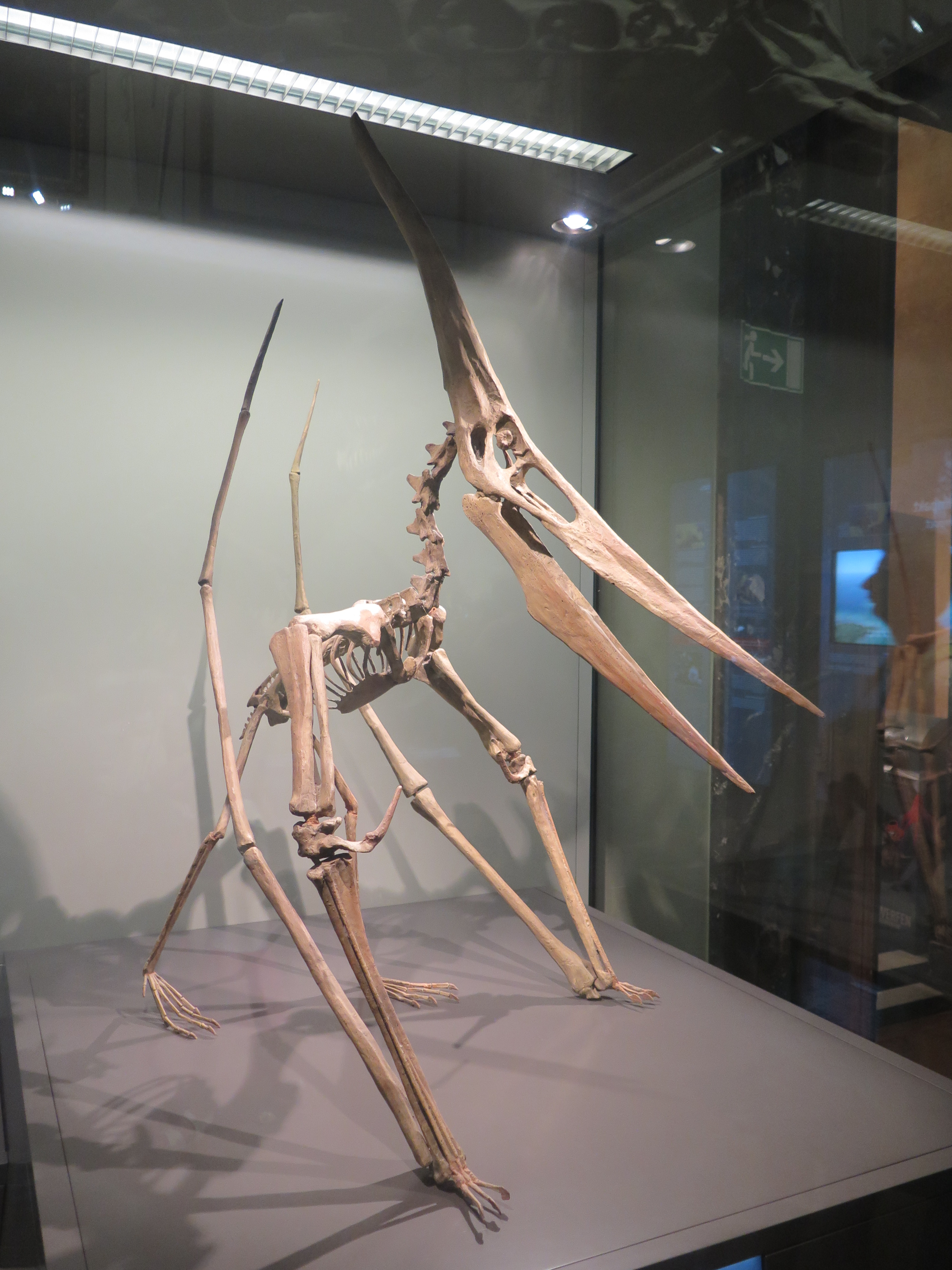 Pteranodon skeleton in Vienna.